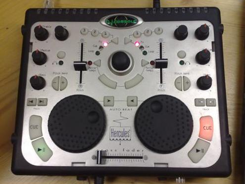 A photo of my Hercules DJ Console MK1, shot in 2009.